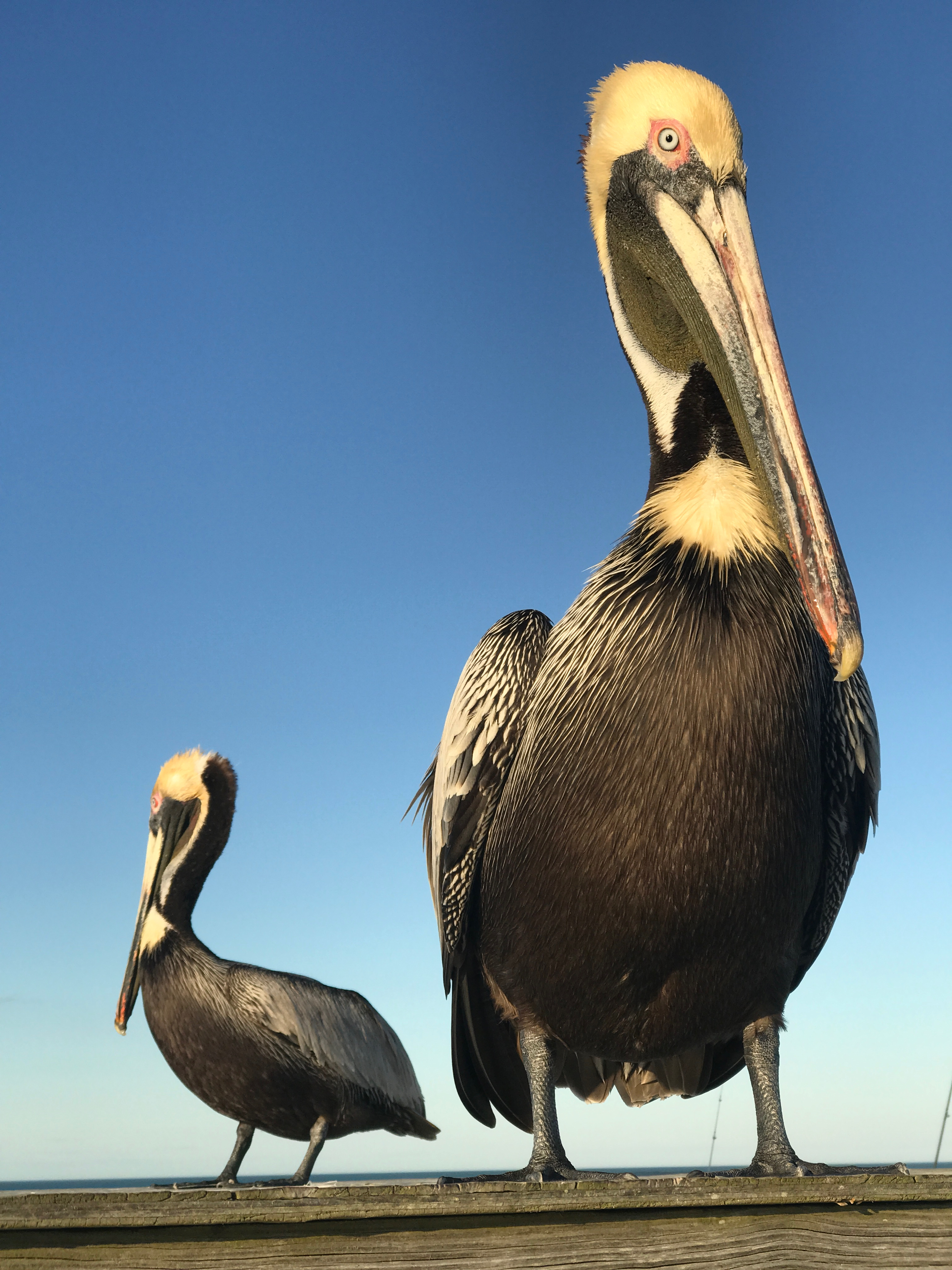 A Brown Pelican stand on the railing of the Kure Beach Pier on Pleasure Island, NC